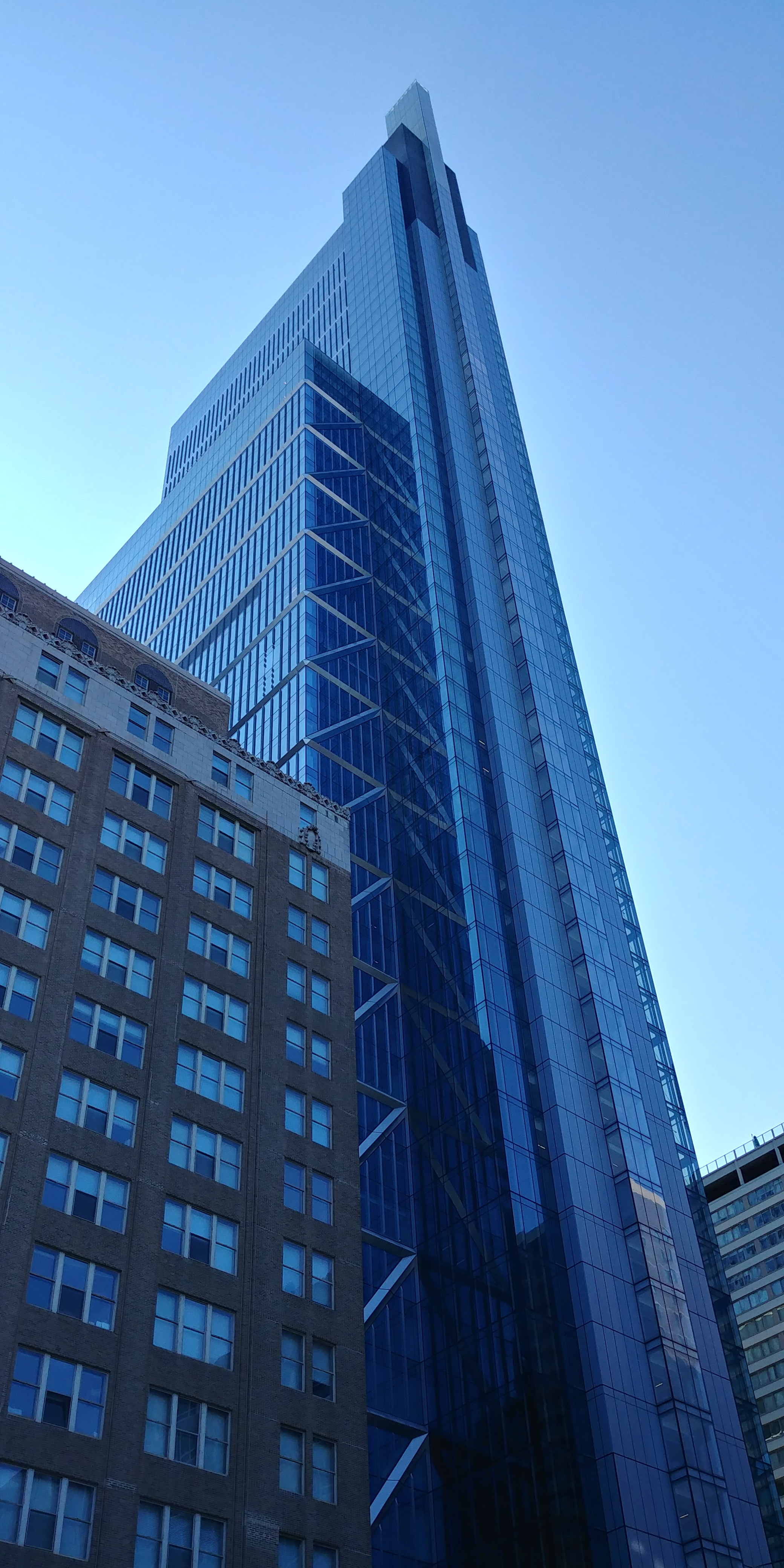 The Comcast Technology Center in Center City Philadelphia, on August 26th 2018 as viewed from the northwest corner.